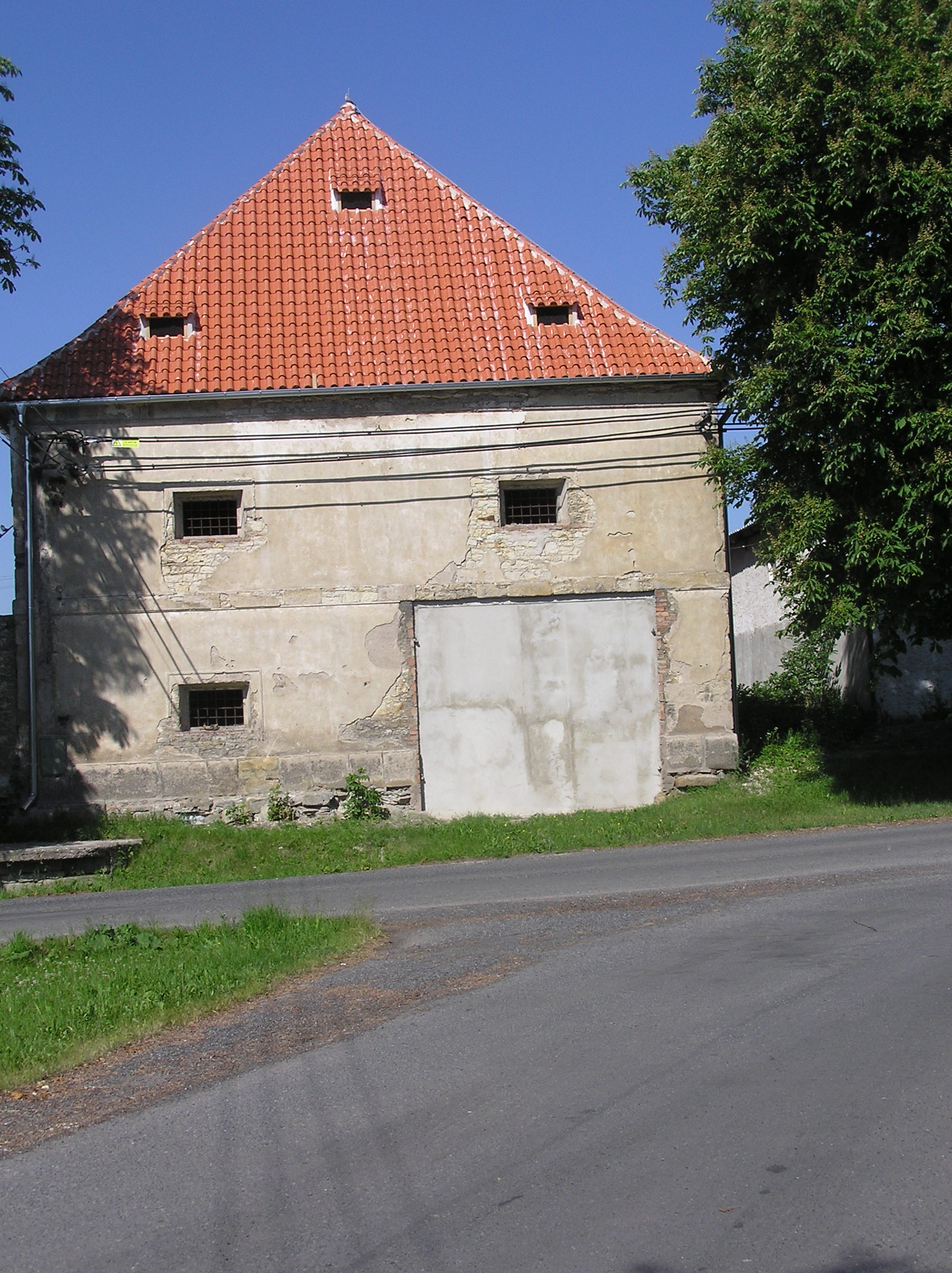 Granary in Volenice